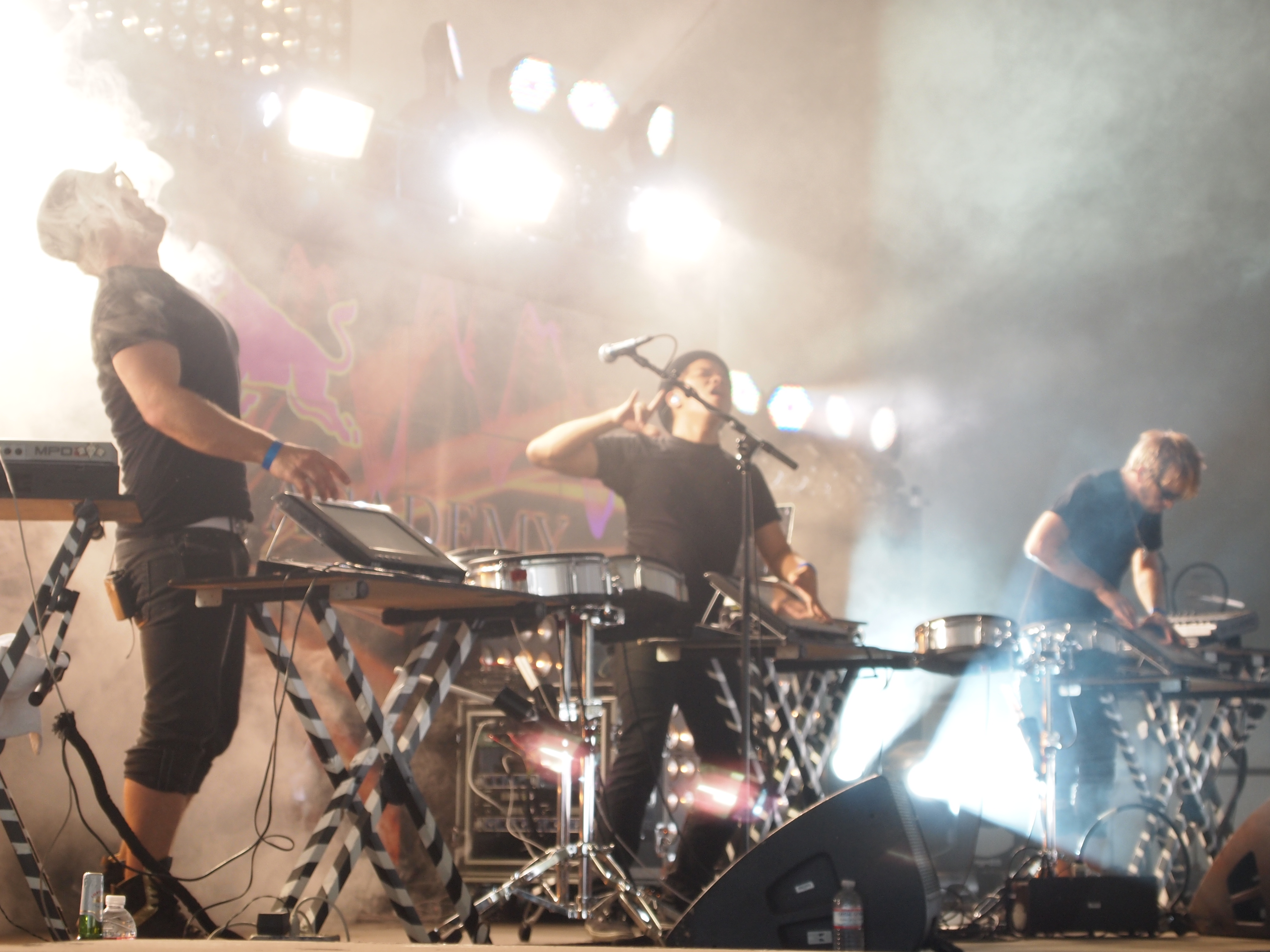 Boreta, ediT, Ooah: Glitch Mob, September 5th, 2010